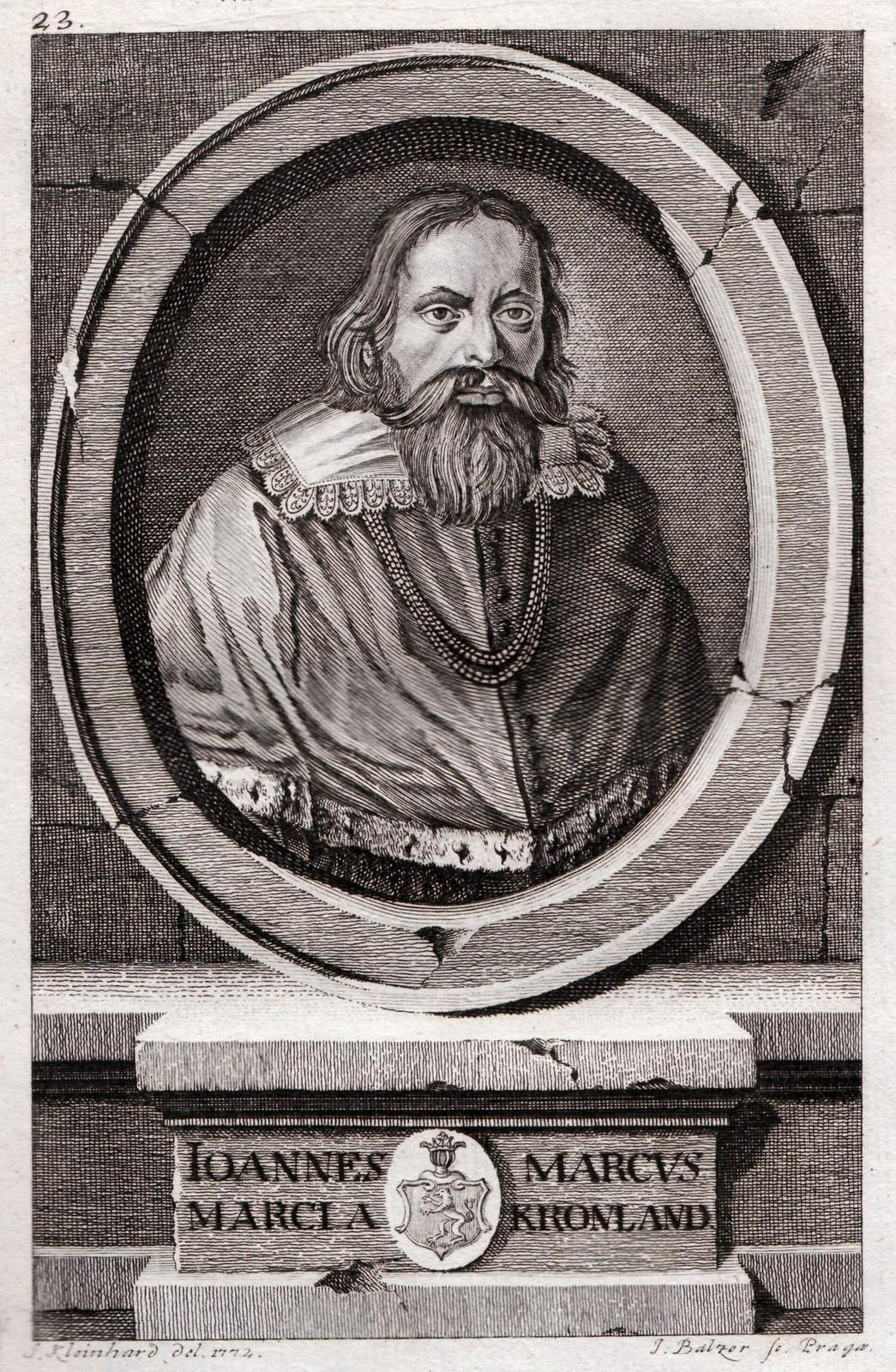 Jan Marek Marci (1595—1667)